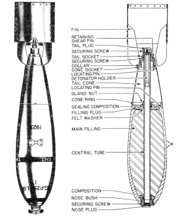 Diagram showing external and sectional view of British, Mark 1, 250lb General Purpose bomb